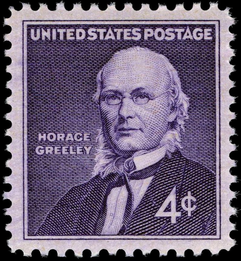 Image of Horace Greeley on US Postage stamp, issue of 1961